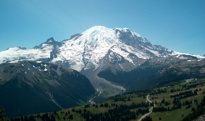 Mount Rainier (a Stratovolcano), as viewed from the Sourdough Ridge trail.